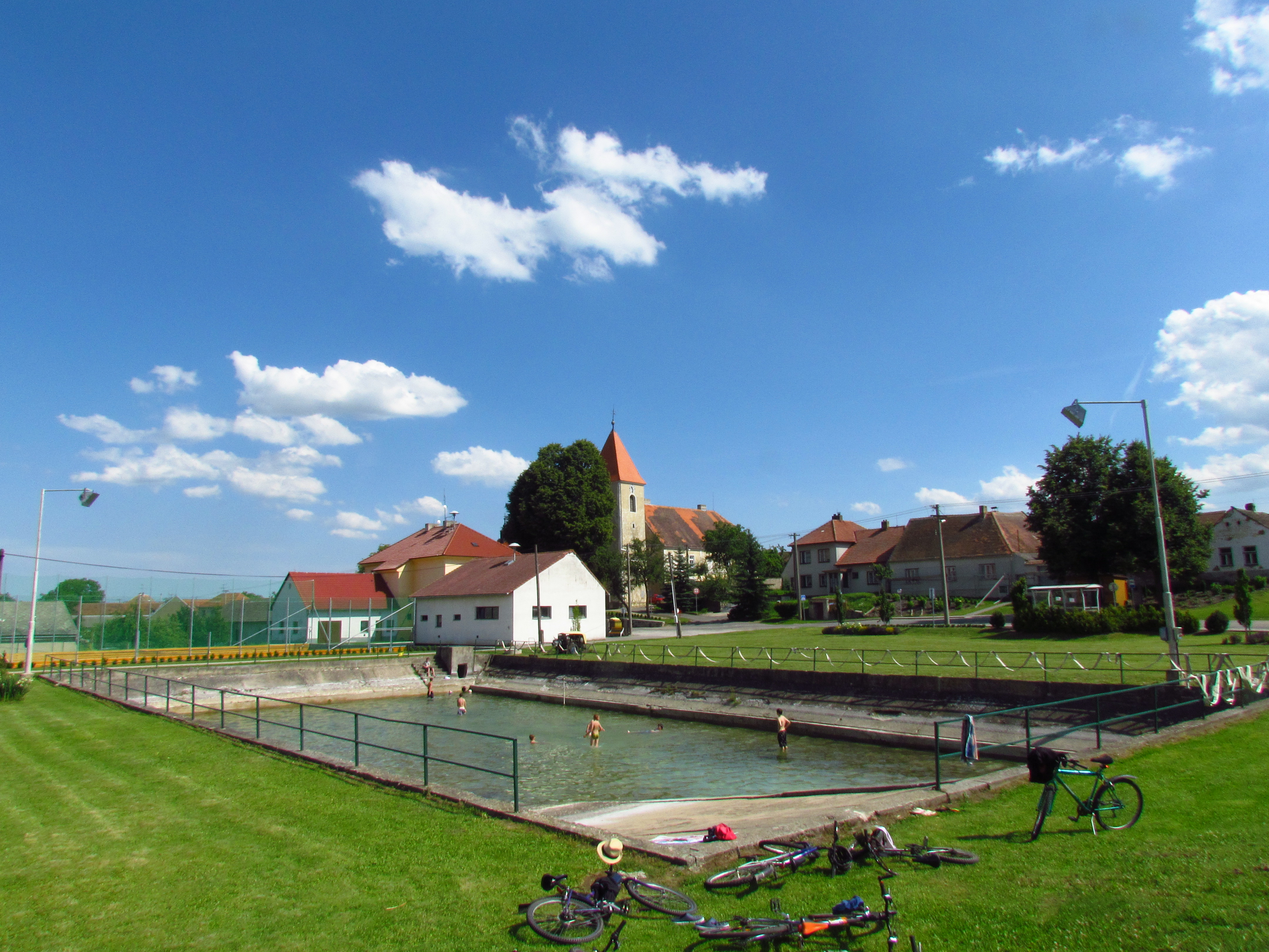 Village pond in Krhov, Třebíč District.